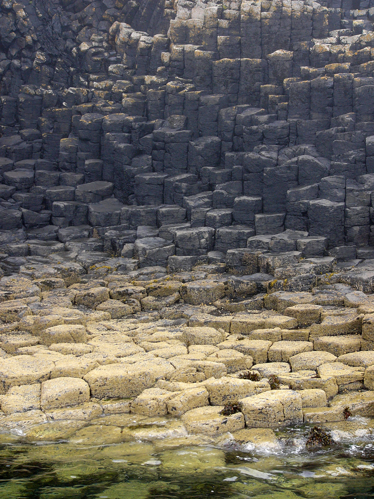 Basaltic columns on Staffa, Scotland.